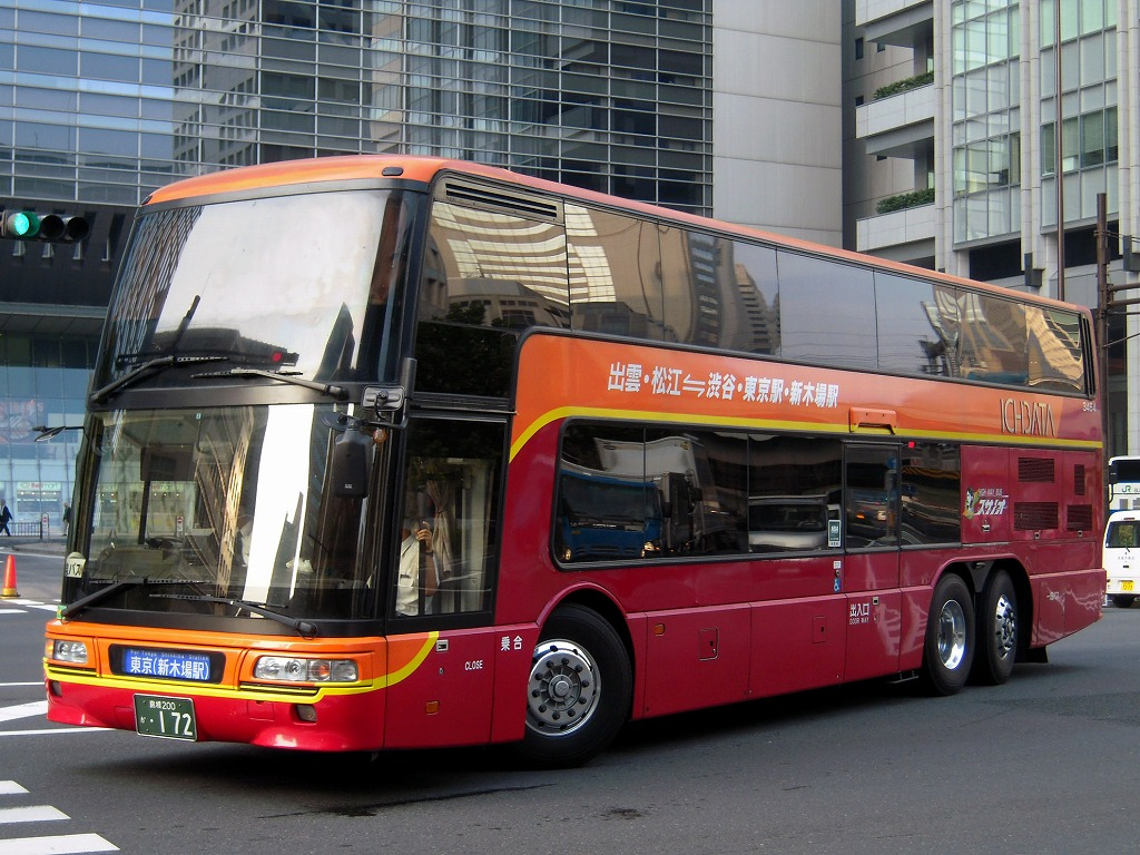 Ichibata bus Mitsubishi Fuso Aero King (MU612TX) Highwaybus "Susanoo"(Izumo,Matsue-Tokyo)